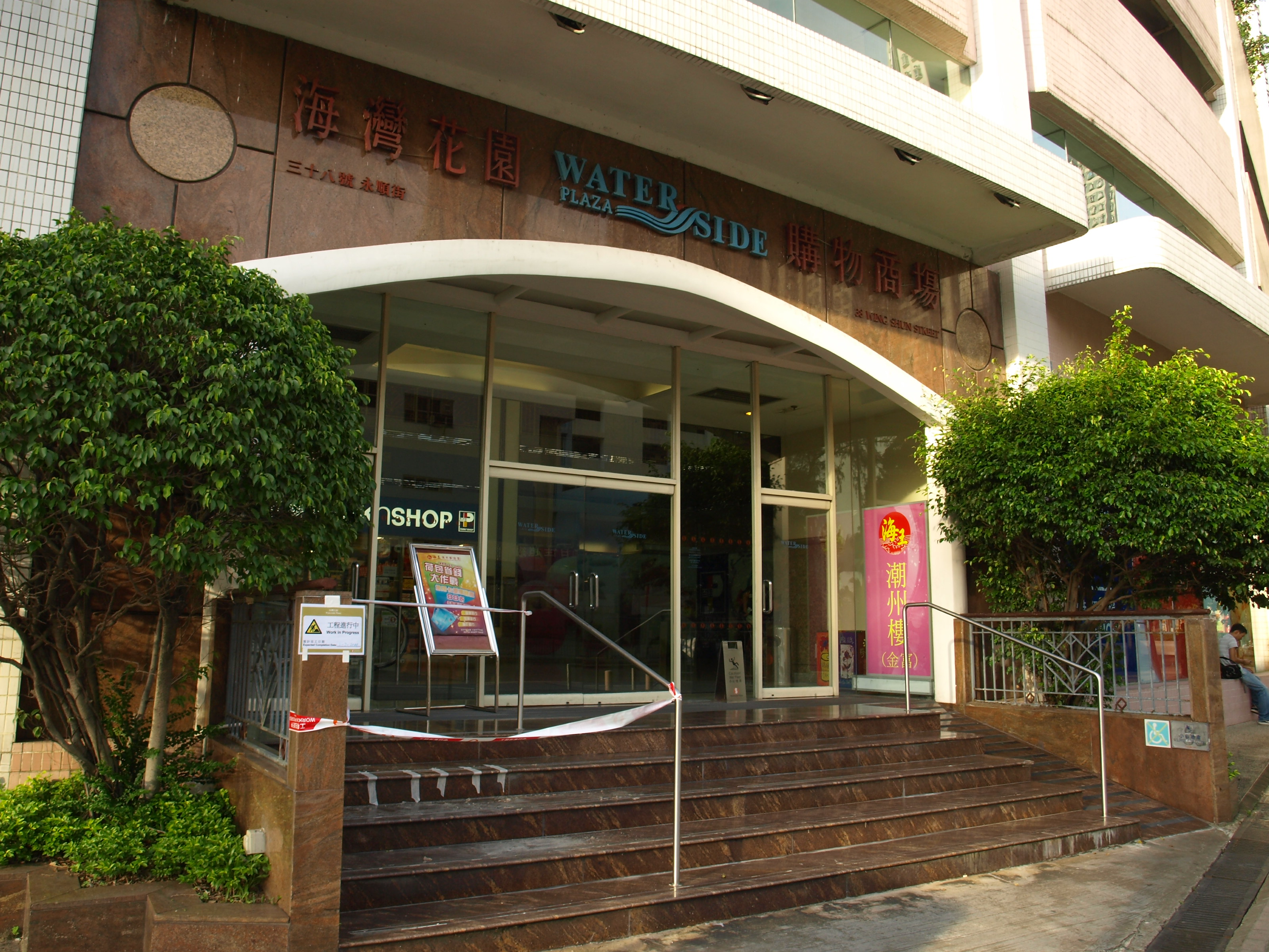 Waterside Plaza Shopping Mall (Phase 2) 中文（香港）: 海灣花園購物商場 (第二期)